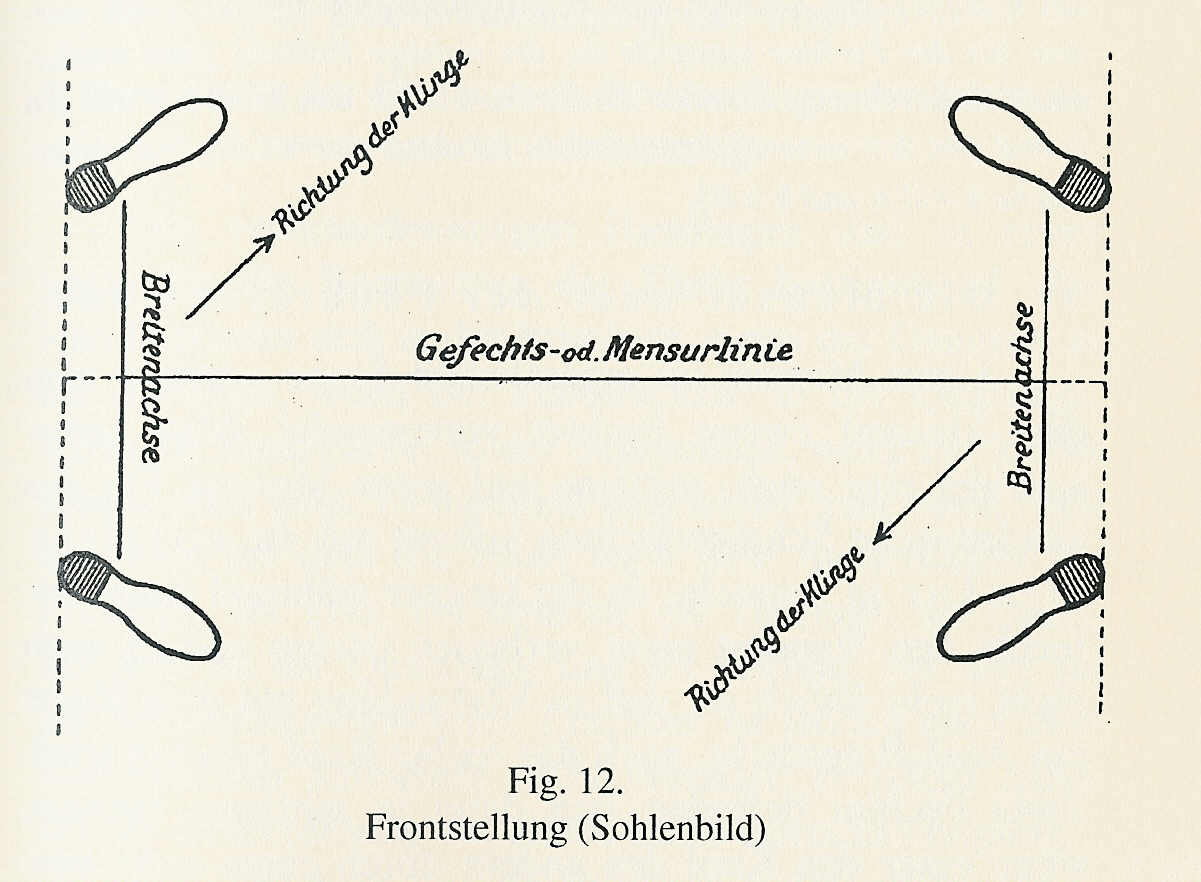 Positioning of fencers in German academic fencing, German fencing manual of 1906, Position der Mensurfechter in der "Frontstellung", Fechtlehrbuch 1906